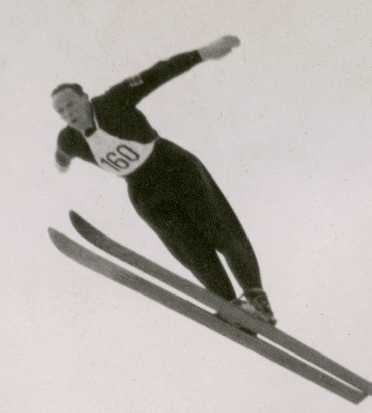 Norwegian skier Thorleif Schjelderup in action